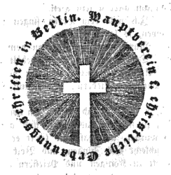 Logo of the ';'Hauptverein für christliche Erbauuungschriften in Berlin